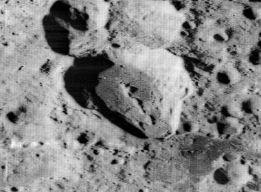 Oblique view of Buys-Ballot, on the far side of the moon. North at top.